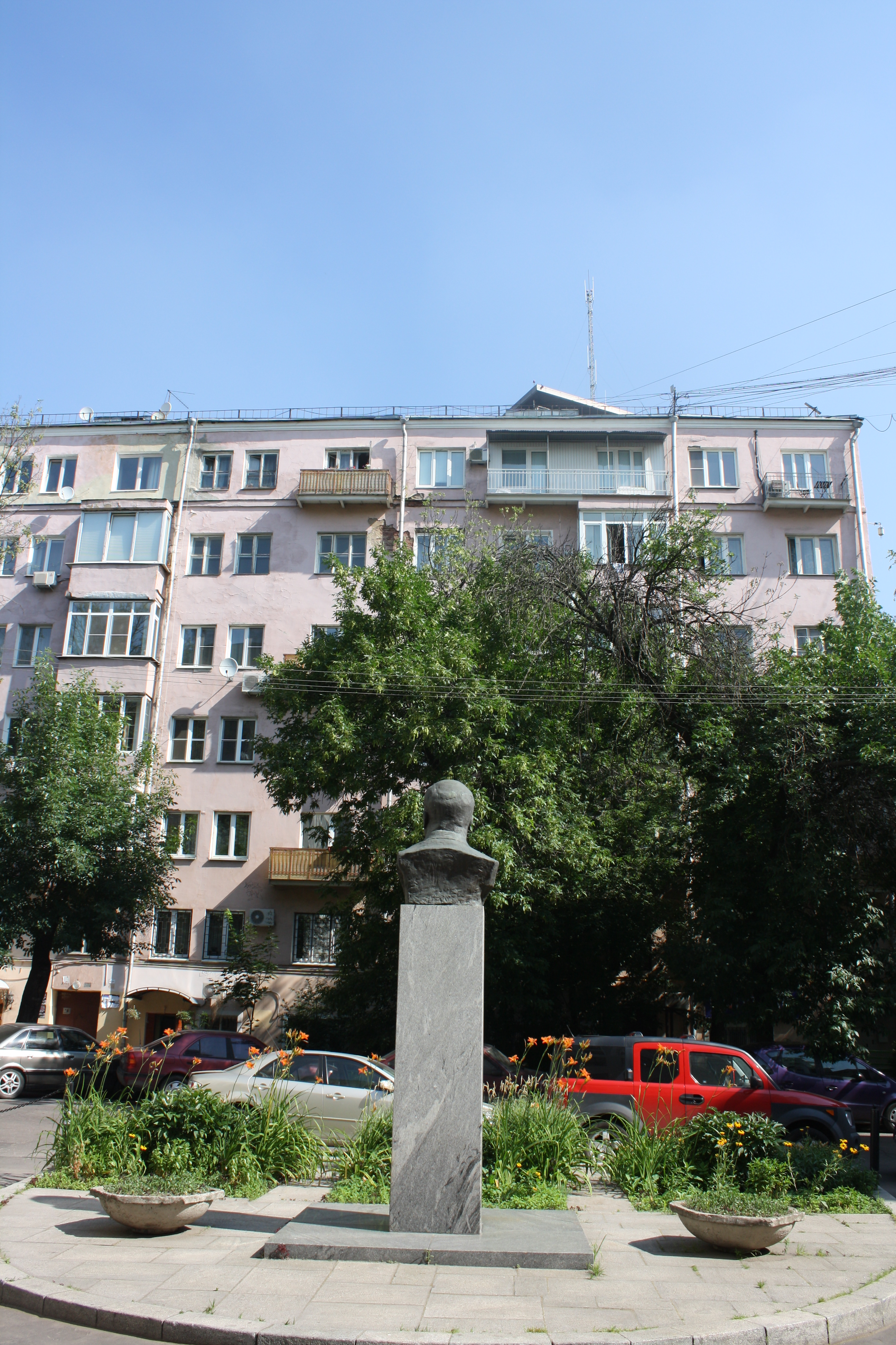 Petroverigsky Lane, 10, Moscow A. L. Myasnikov